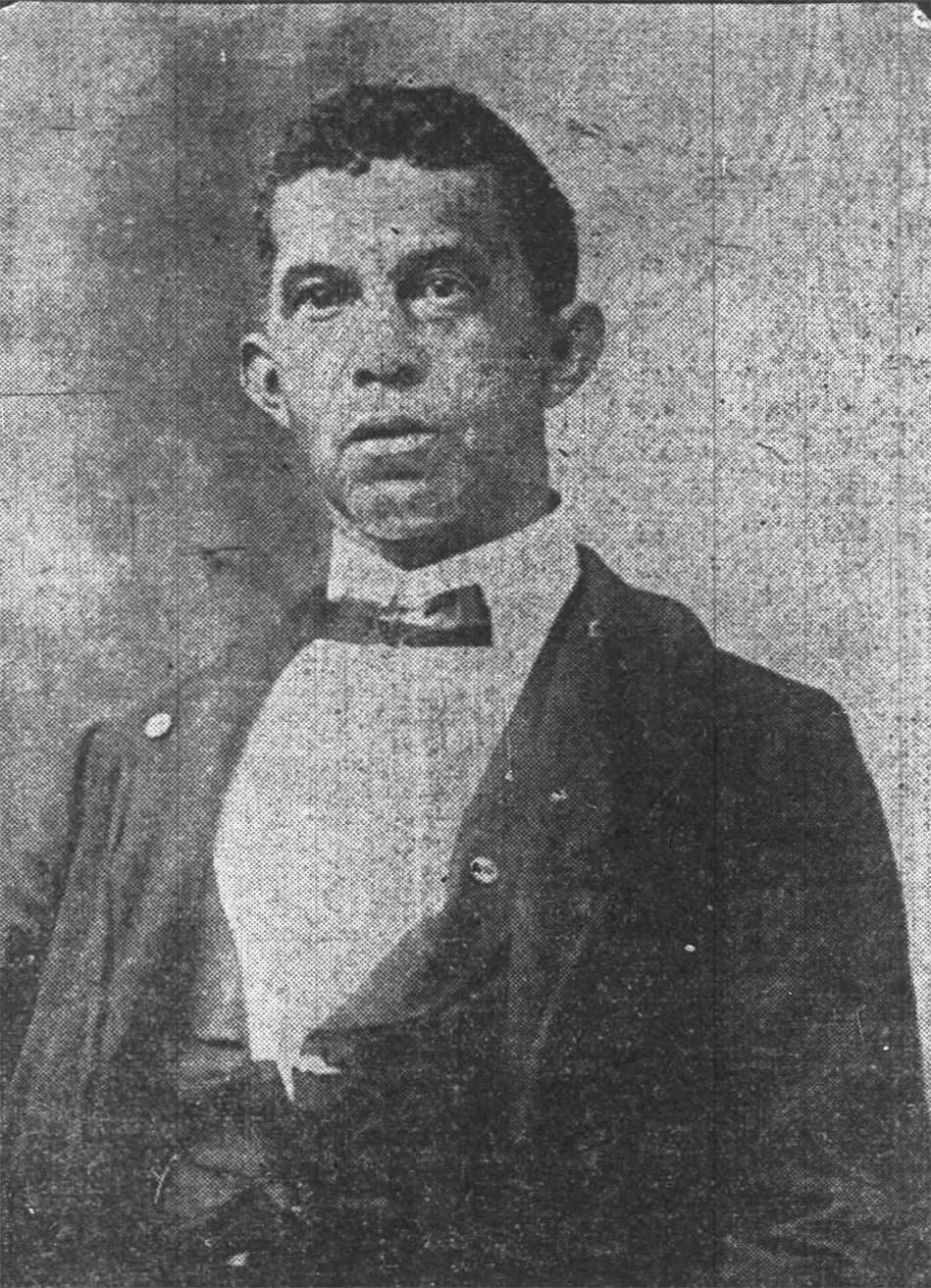 James Benjamin Parker